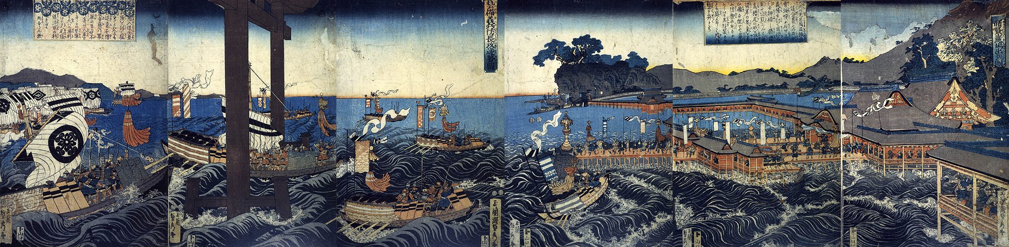 Mōri Motonari sails to the Battle of Miyajima, 1555.